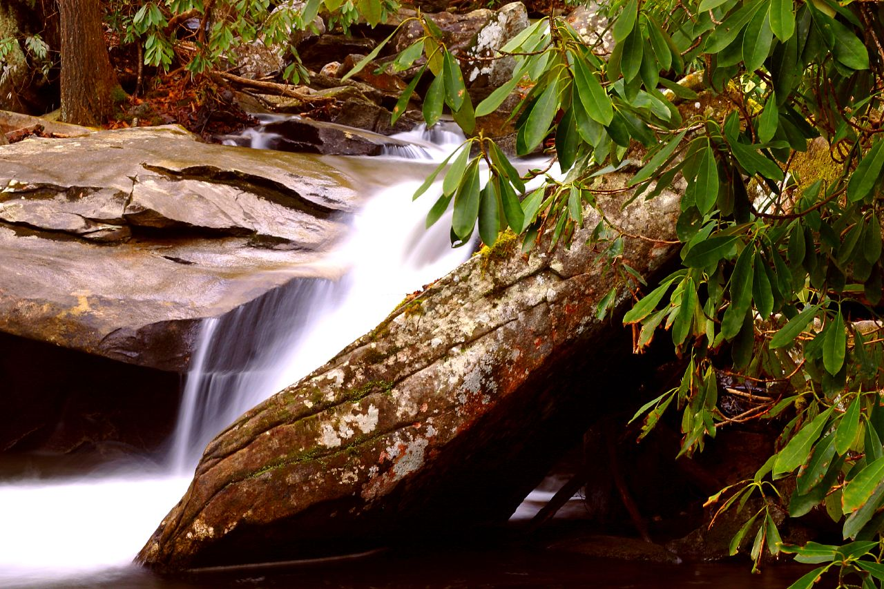 Davidson River in Pisgah National Forest. Transylvania County, North Carolina, USA.